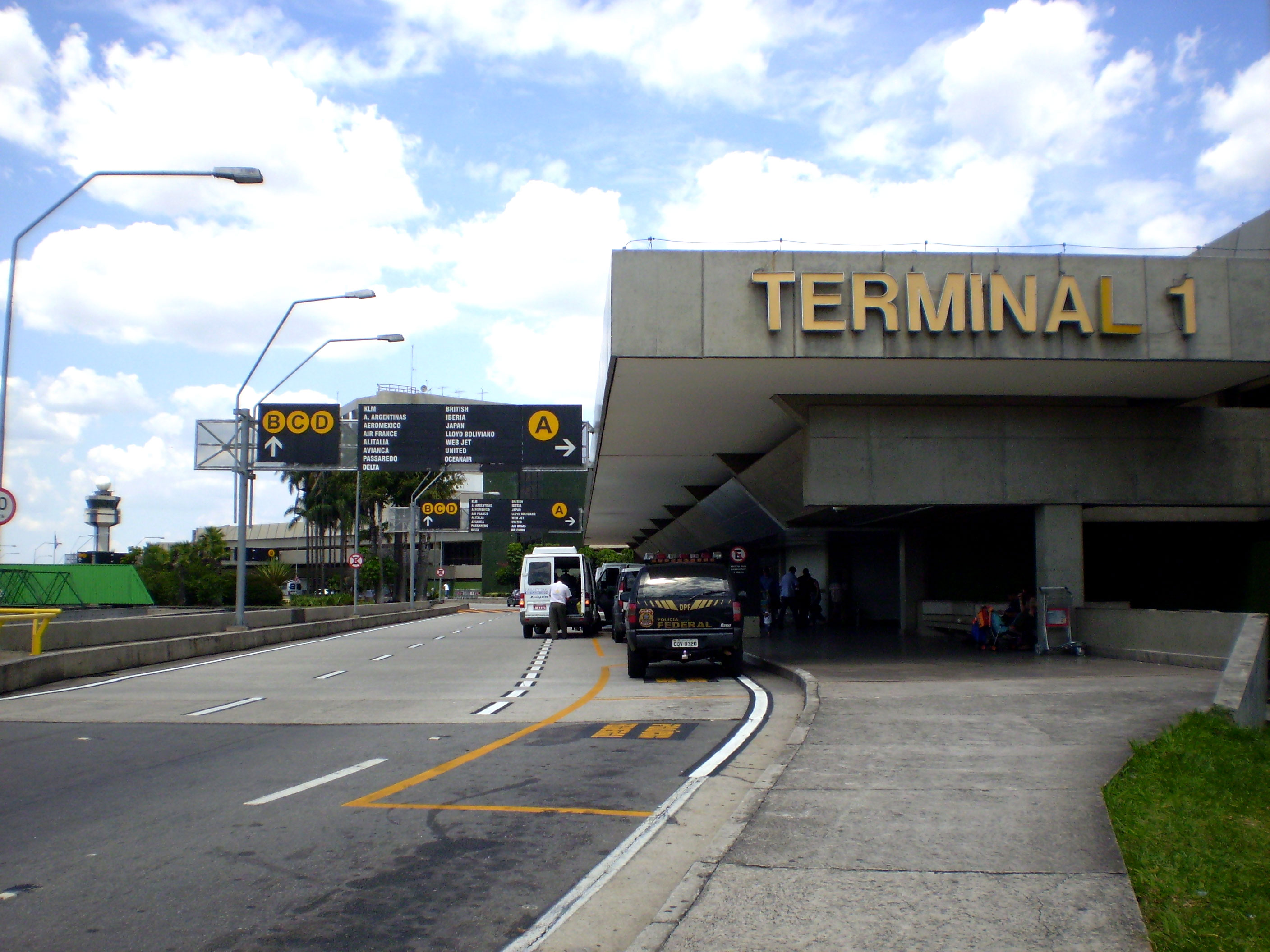 External view of São Paulo/Guarulhos International Airport's Terminal 1